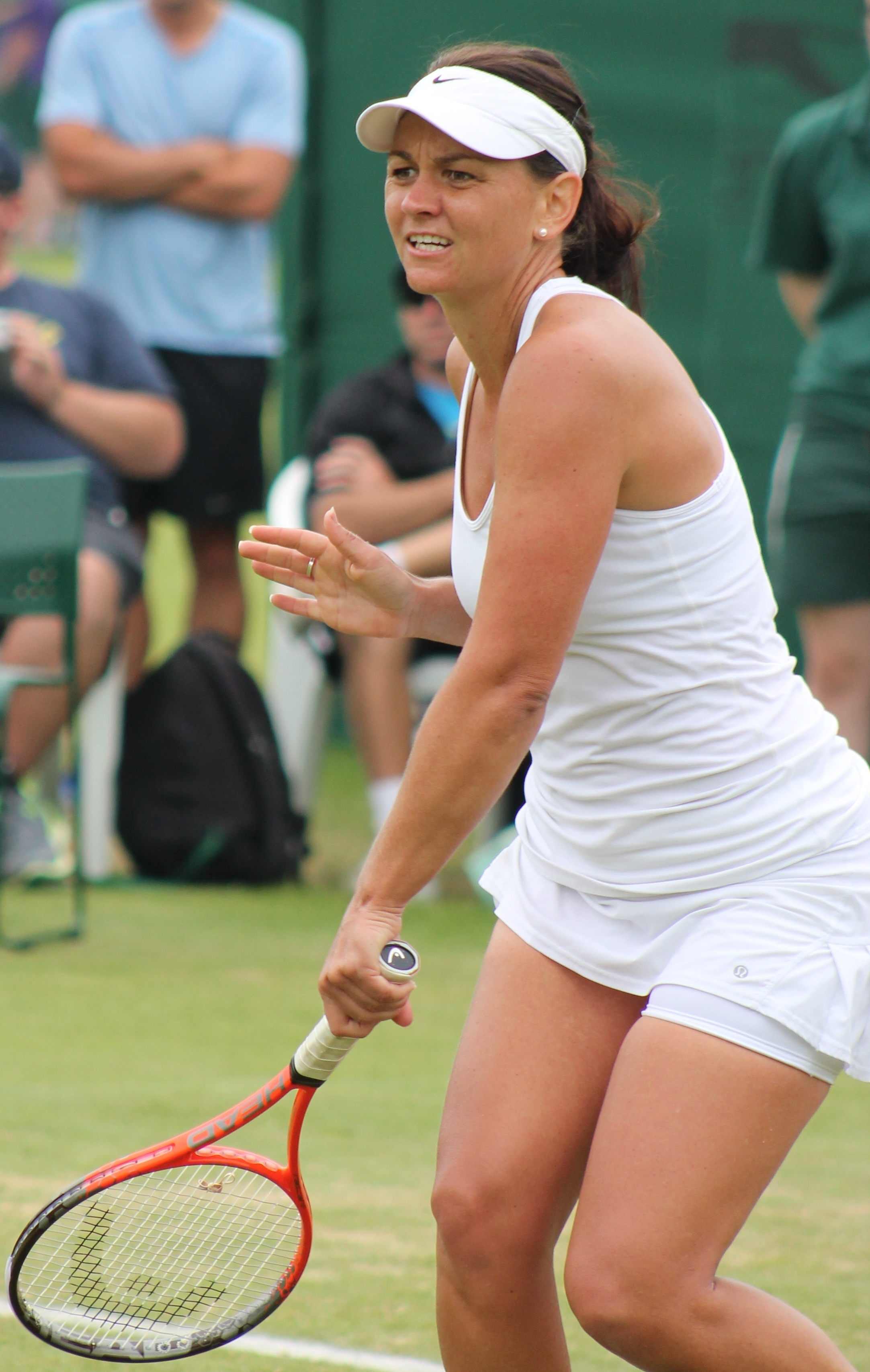 Casey Dellacqua plays in the final round of 2013 Wimbledon Ladies Singles Qualification at Roehampton on 20 June 2013. Although Dellacqua lost to Carina Witthöft (Germany), Dellaqua did reach the final of the main 2013 Wimbledon Ladies Doubles event with Ashleigh Barty.